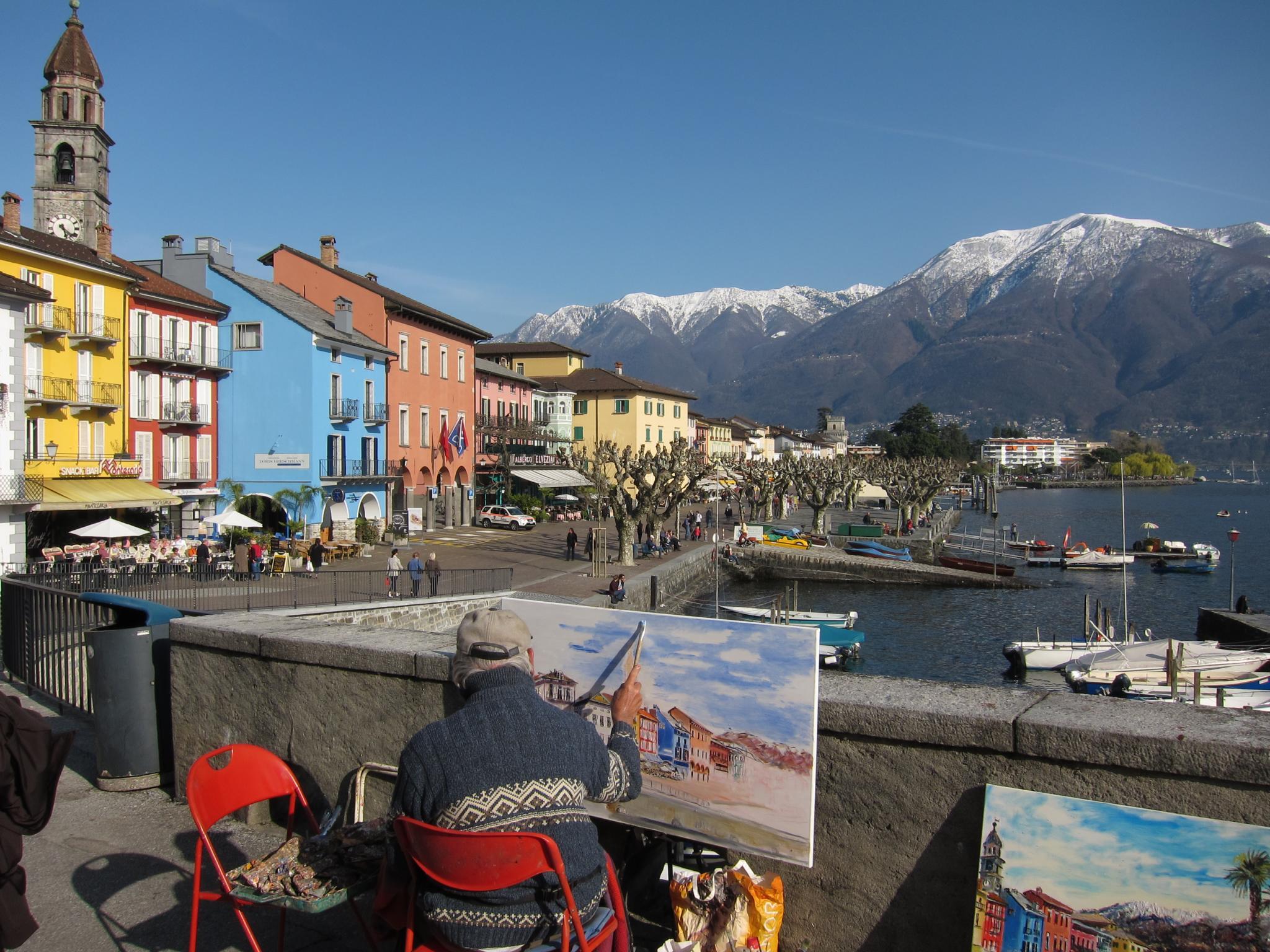 Artist along the waterfront in Ascona, Ticino, Switzerland